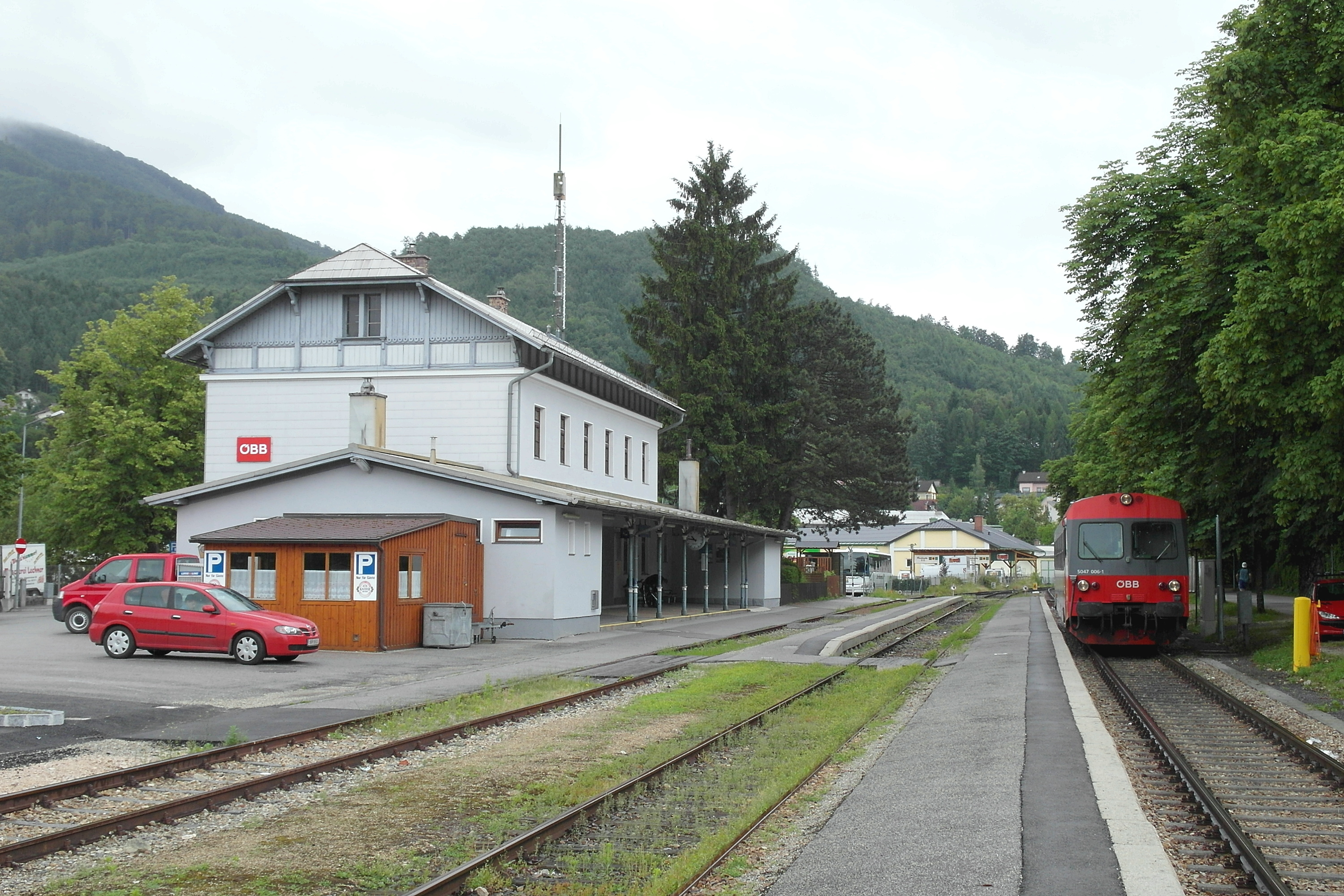 Scheibbs station with diesel railcar 5047 006.